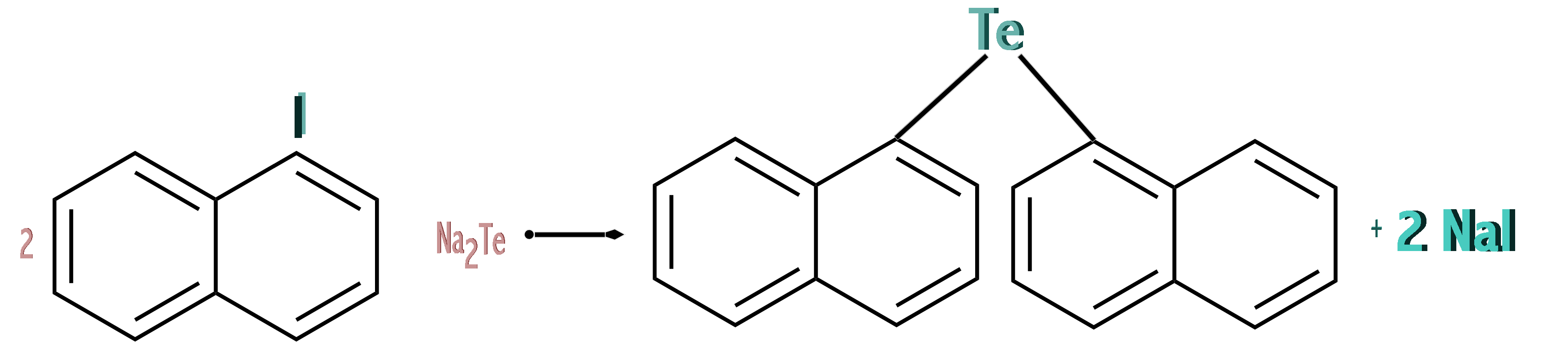 Dinaphthyltelluride synthesis from sodium telluride and naphthyl-iodide